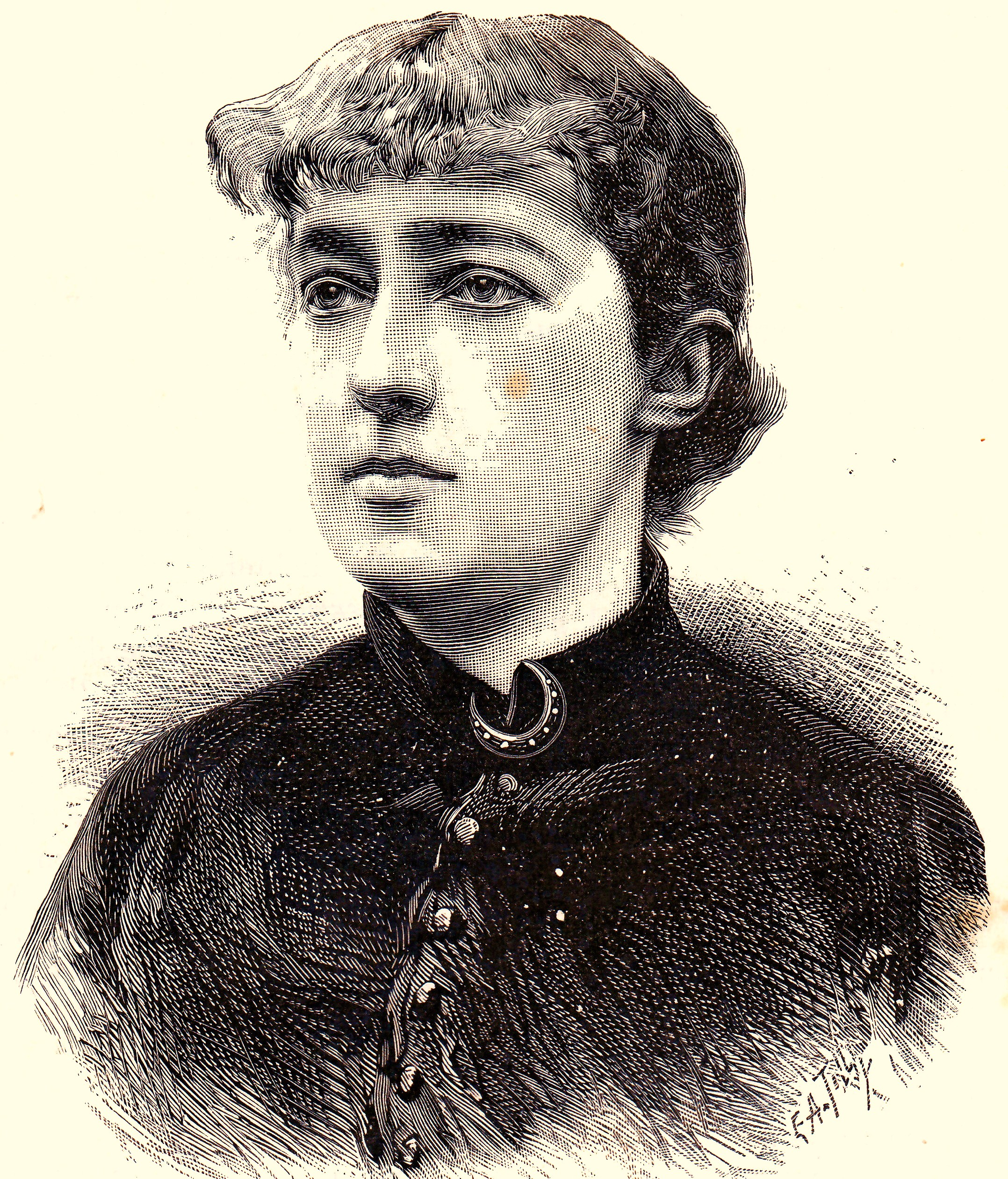 Hélène Swarth